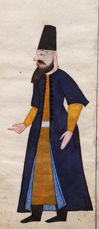 Ottoman Turkish Illustrations from Peter Mundy's Album, "A briefe relation of the Turckes, their kings, Emperors, or Grandsigneurs, their conquests, religion, customes, habbits, etc" - Istanbul 1618